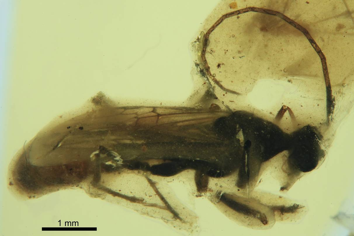 profile view of the Baikuris maximus holotype. Specimen IGRARC112-1. Charentese amber 100 million years old; Charente-Maritime, France.